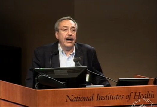 Air date: Wednesday, September 07, 2011, 3:00:00 PM Time displayed is Eastern Time, Washington DC Local Category: Wednesday Afternoon Lectures Description: As part of their infection cycle, many viruses must package their newly replicated genomes inside a protein capsid to insure its proper transport and delivery to other host cells. Bacteriophage phi29 packages its 6.6 mm long double-stranded DNA into a 42 nm dia. x 54 nm high capsid using a multimeric ring motor that belongs to the ASCE (Additional Strand, Conserved E) superfamily of ATPases. A number of fundamental questions remain as to the coordination of the various subunits in these multimeric rings. The portal motor in phi29 is ideal to investigate these questions. Using optical tweezers, we find that this motor can work against loads of up to ~57 picoNewtons on average, making it one of the strongest molecular motors ever reported. Interestingly, the packaging rate decreases as the prohead is filled, indicating that an internal pressure builds up due to DNA compression. The capsid pressure at the end of the packaging is ~6 MegaPascals, corresponding to an internal force of ~52 pN acting on the motor. We have identified where in the mechanochemical cycle the chemical energy of ATP is converted into mechanical work. Using ultra-high resolution optical tweezers, we have performed the first direct measurement of the step size of a translocating ring ATPase. What emerges is a surprising mechanism that involves a step size with a non-integer number of base pairs and that reveals an unexpected degree of coordination among the individual subunits that has not been proposed previously for a ring ATPase. For more information, visit: The NIH Director's Wednesday Afternoon Lecture Series Author: Dr. Carlos J. Bustamante Runtime: 01:10:39 Download: Download Video How to download a Videocast Caption Text: Download Caption File CIT File ID: 16822 CIT Live ID: 10500 Permanent link